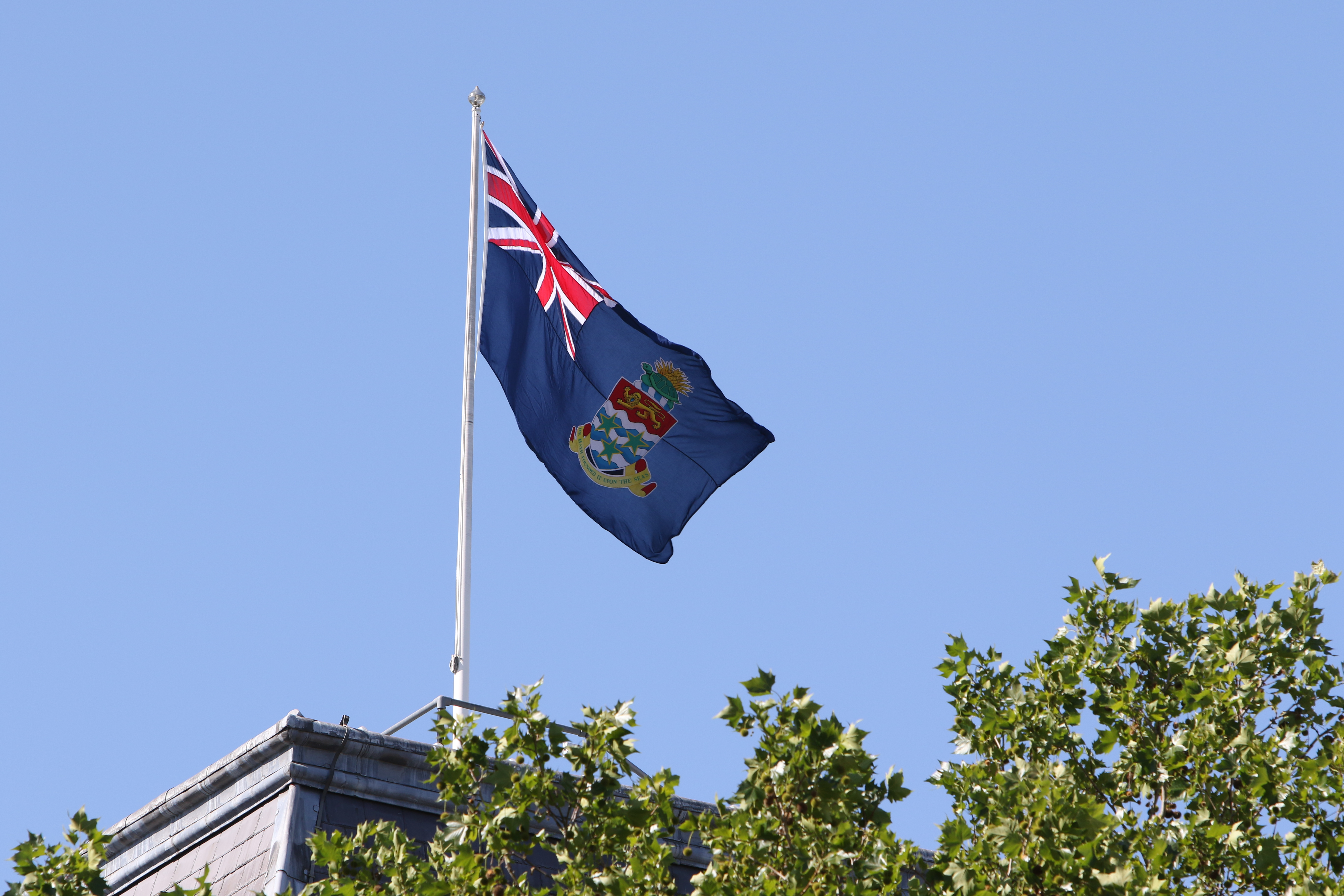 The flag of Cayman Islands flies on the Foreign Office building in London, 2 July 2018.